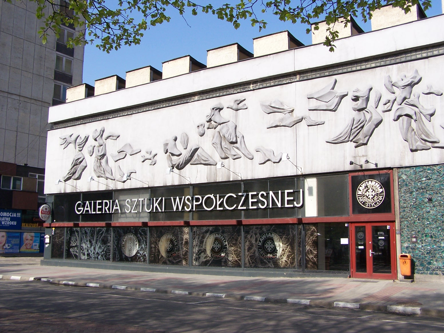 Modern Art Gallery in Katowice (Poland).